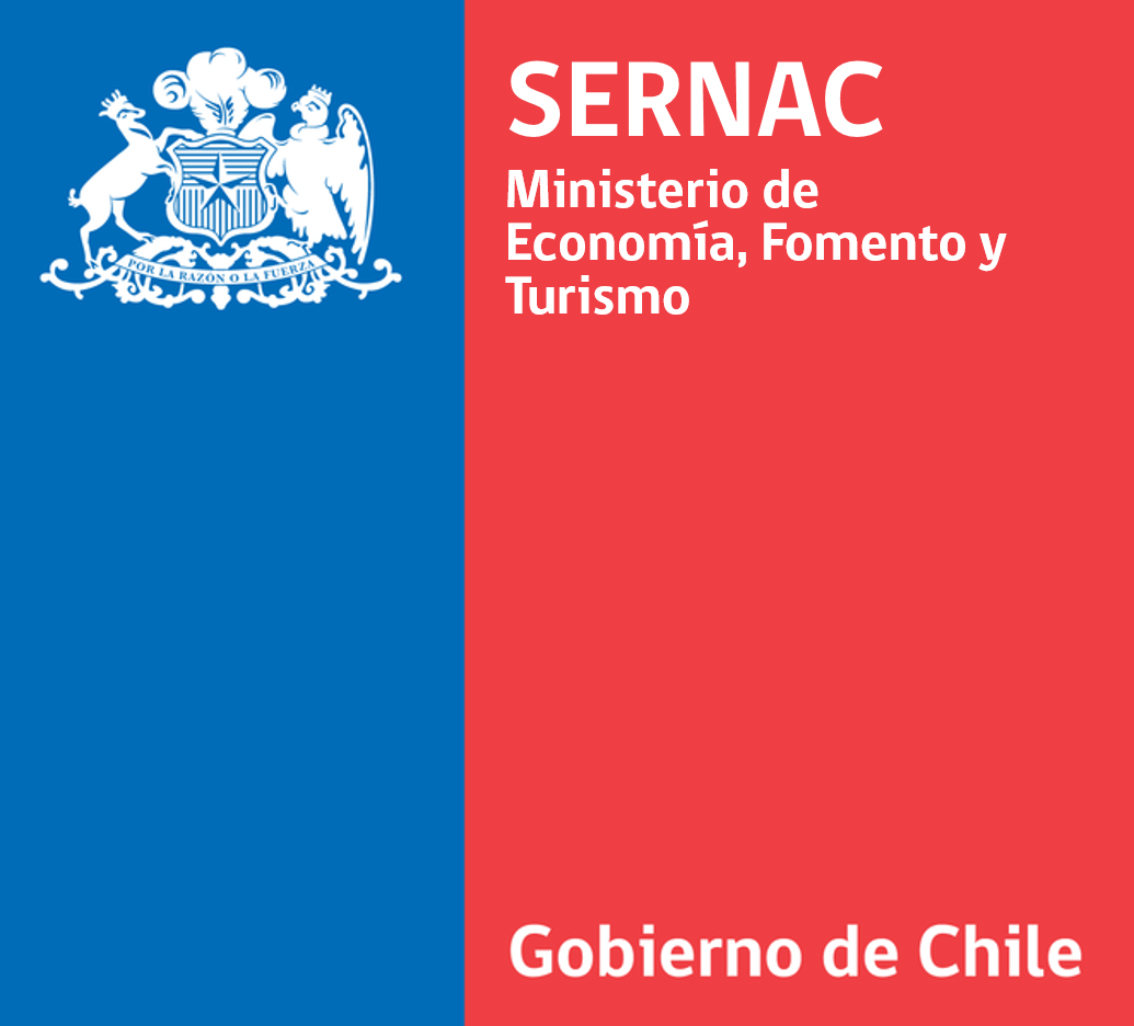 Institutional logo of the National Consumer Service.